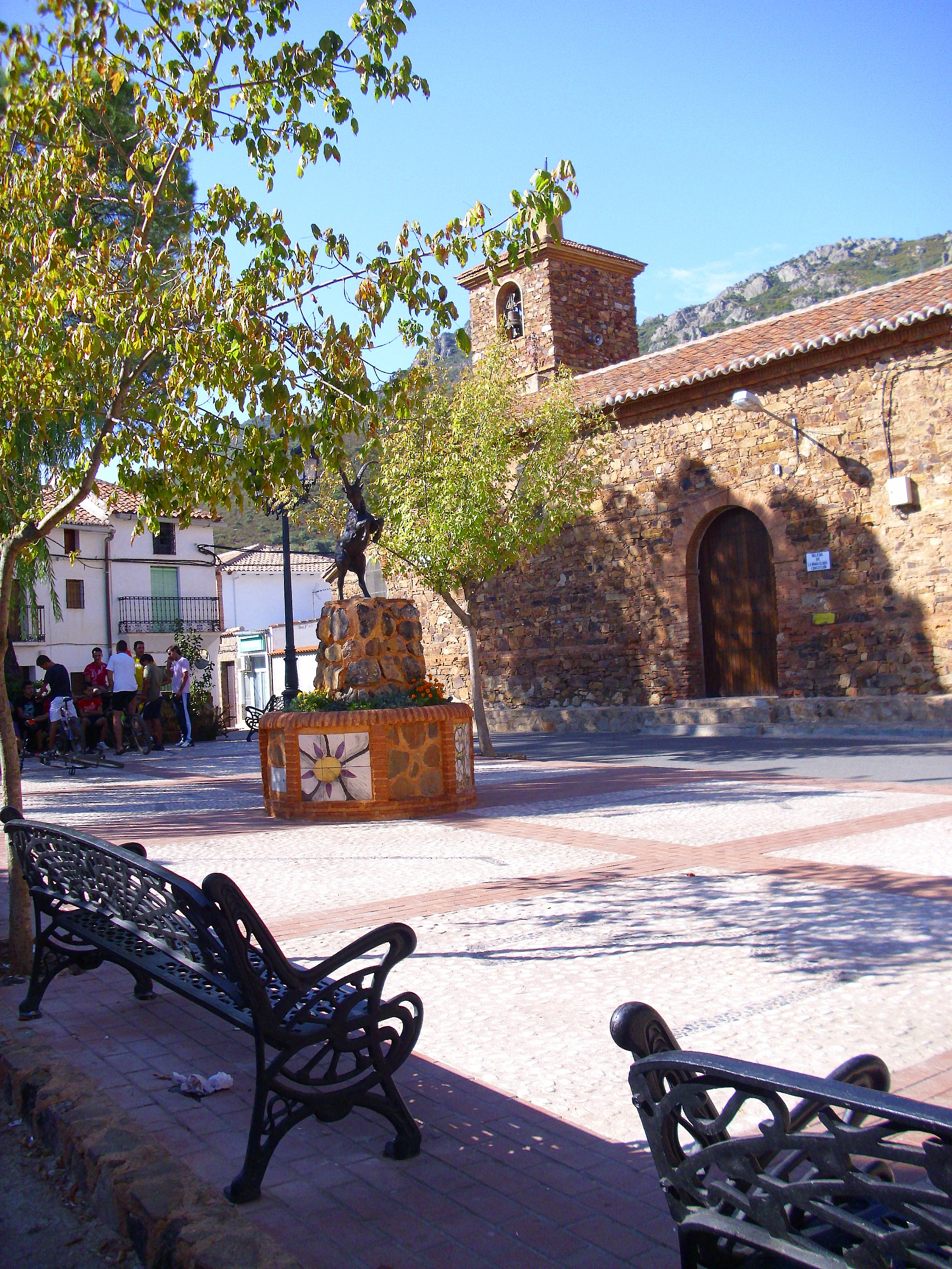 Sierra Morena square Solana del Pino, Spain.